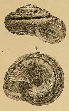 Two views of a shell labelled as Xerophilia cespitum var mauriciencis Pollonera from Porto Maurizio. This species is now called Xerosecta cespitum. From Biodiversity-Heritage-Library scan of Plate 1 of Pollonera, C. (1893). "Studi sulle Xerophila. I. Le X. cespitum e Terveri e forme intermedie". Bollettino della Società Malacologica Italiana 18 (1-3): 7–46+ pl. 1–2. The figure caption appears on page 46 ( The plate was drawn by the author Carlo Pollonera, a renowned Italian artist as well as a malacologist.